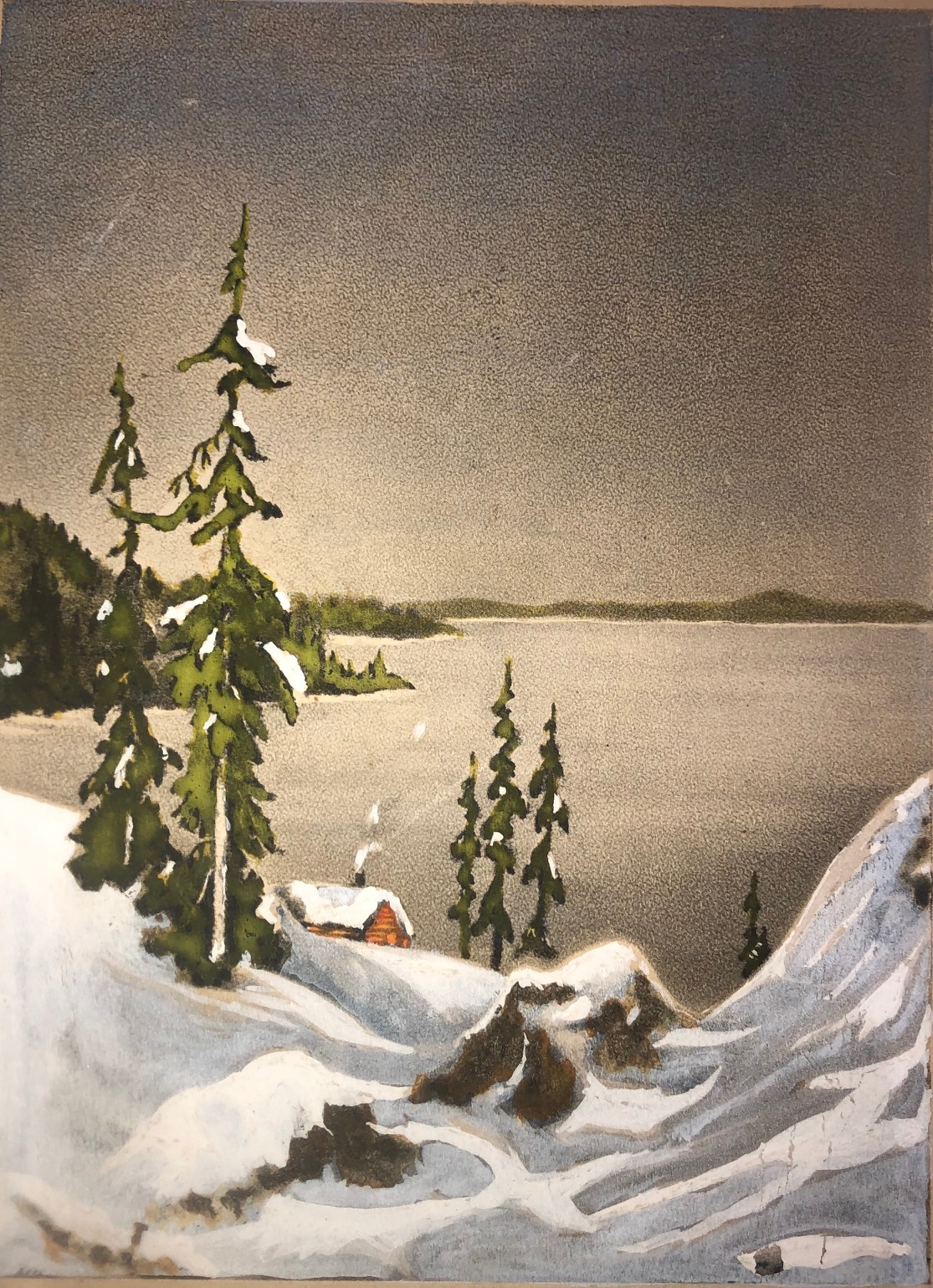 This is a digital photograph of an original watercolour painted by the poster's grandfather in 1937 in Red Lake, Ontario, Canada of Whitehorse Island in Red Lake that is the poster's property